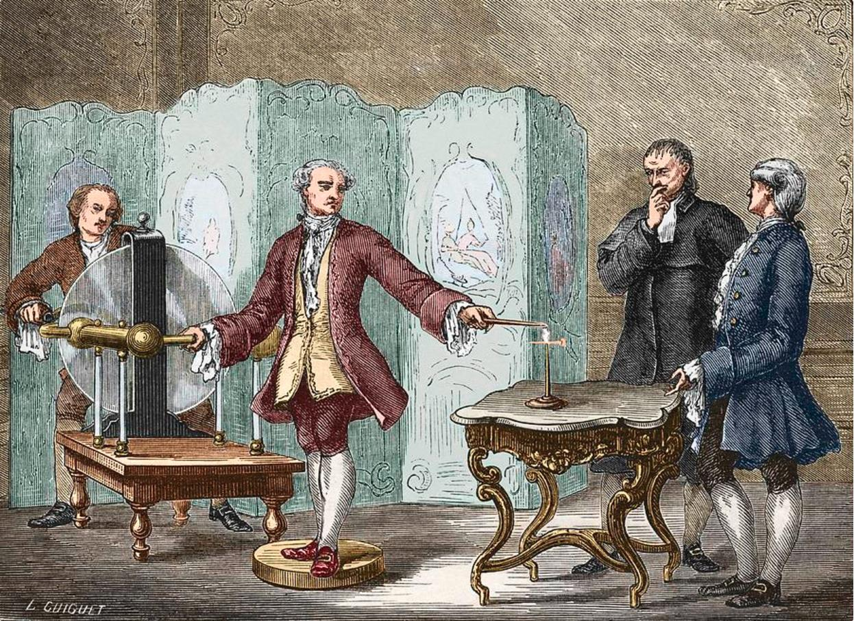 Jean Jallabert (1712-1768) physicist from Geneva, investigating the effects of points and knobs on electrical discharges.